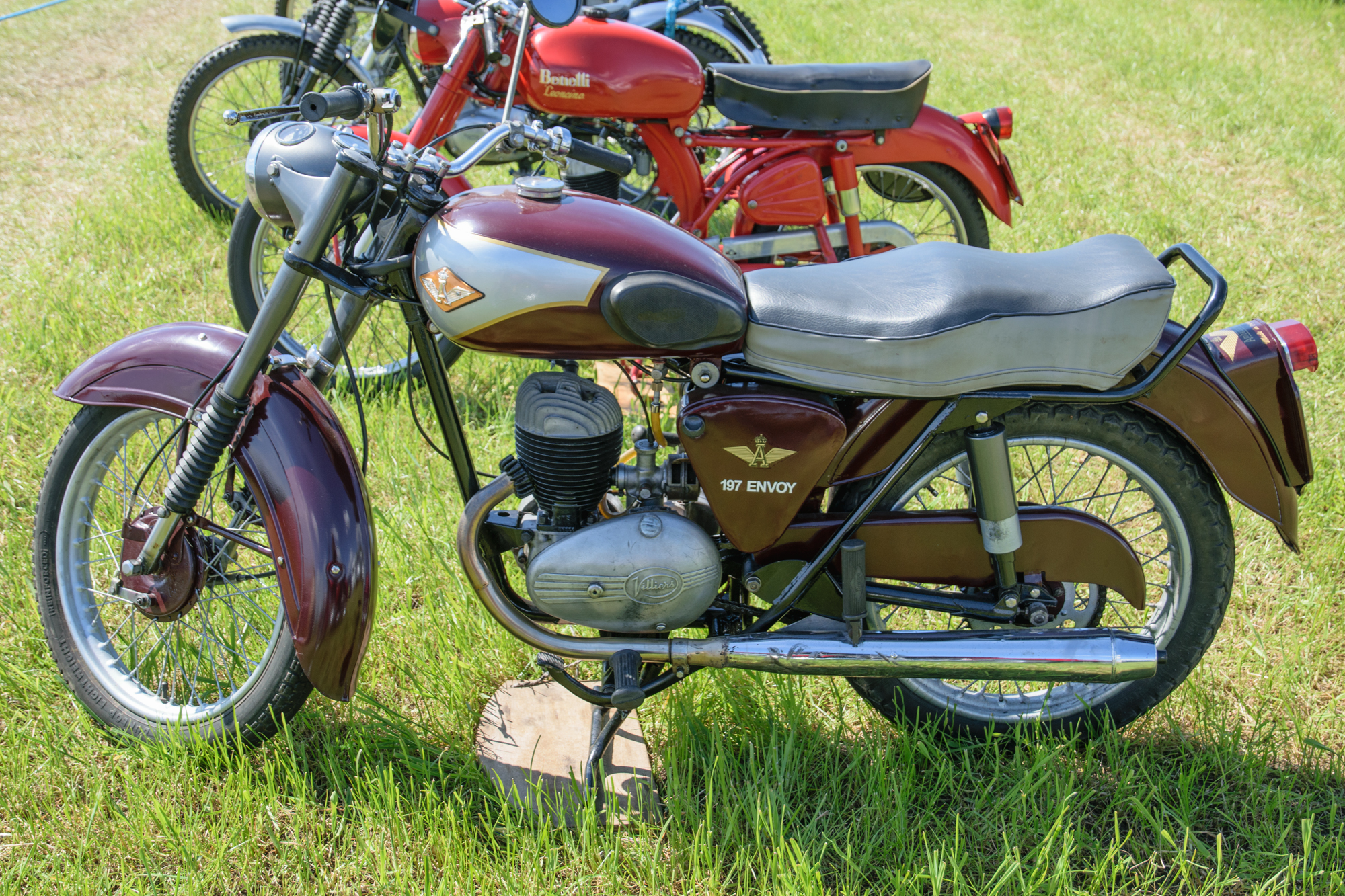 Ambassador Envoy (1959) Ashley Hall Traction Engine Rally